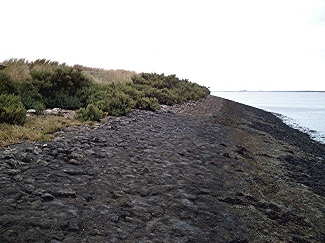 Shrubs on the seawall. Shrubby plants ca. 80cm tall with small, close, rather succulent leaves; this is the only place I've seen it on the estuary. I've since had it identified as Shrubby Seablite Suaeda vera